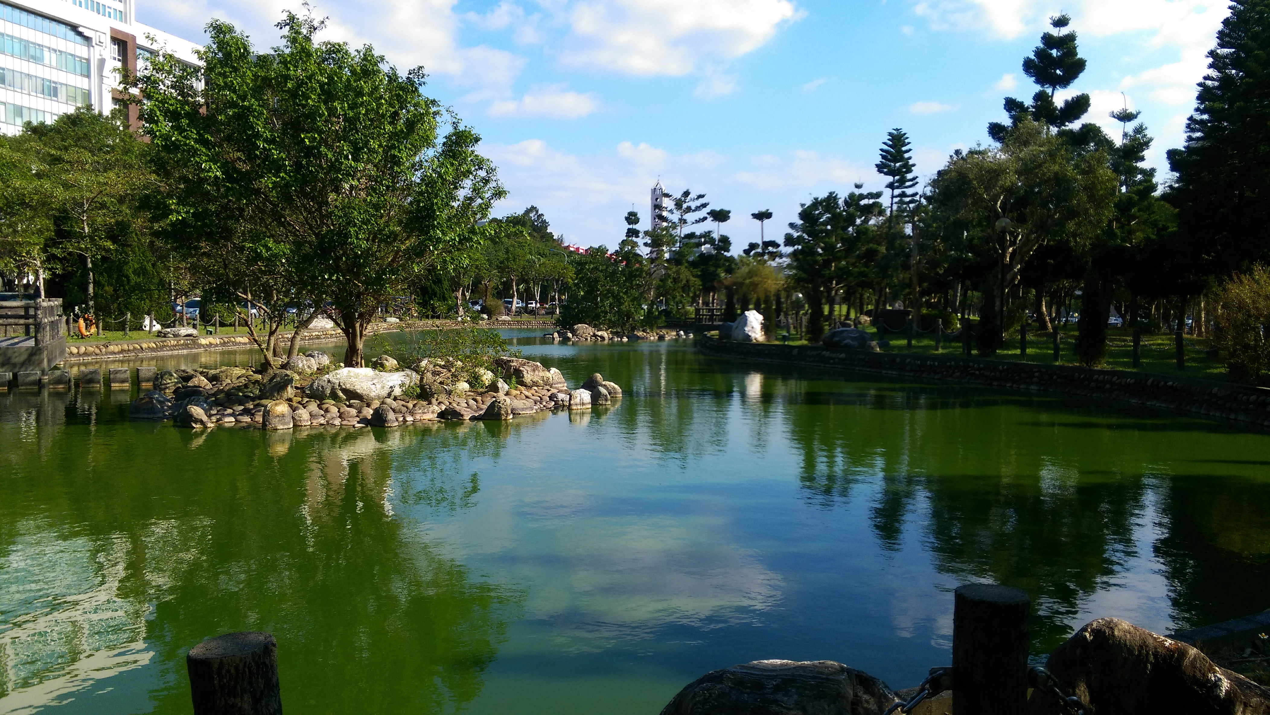 lake located in CGU